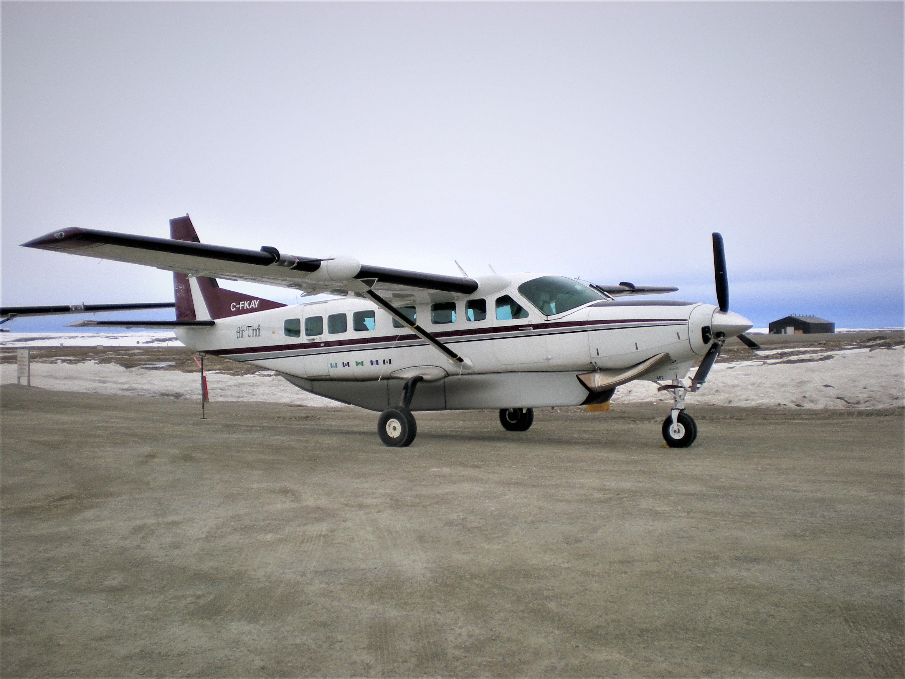 Air Tindi Cessna 208 C-FKAY at Cambridge Bay Airport